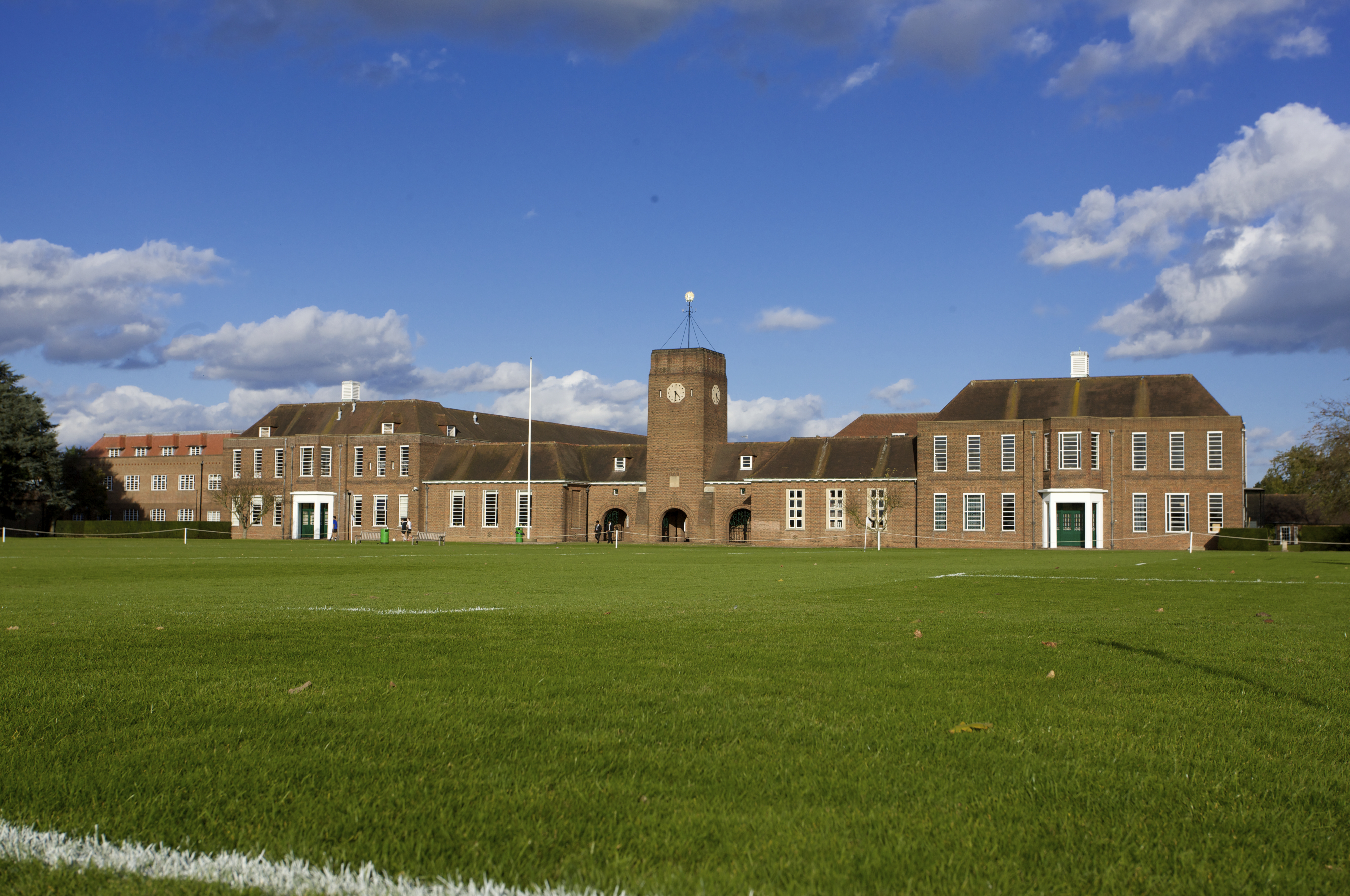 Merchant Taylors' School - Superb Surroundings